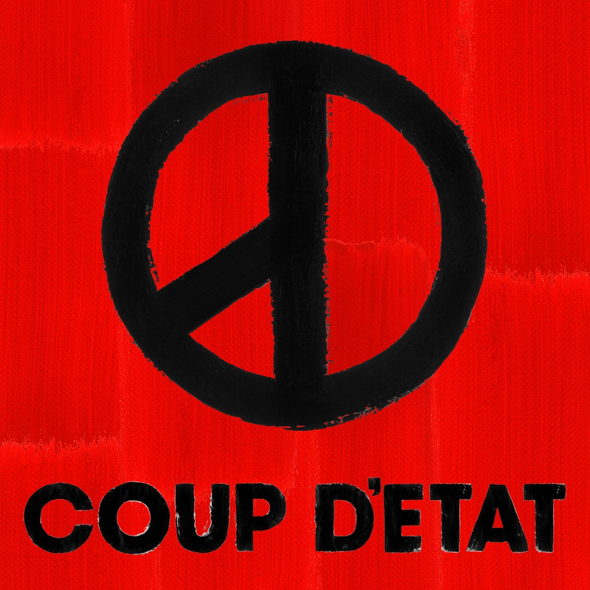 Alternative cover of Coup D'Etat by G-Dragon